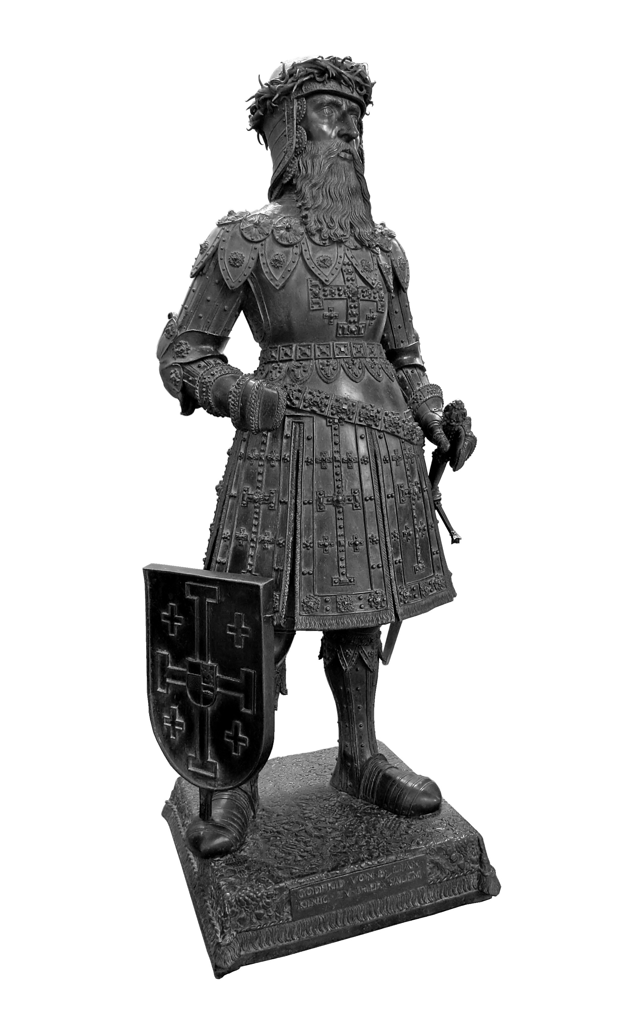 Bronze statue of Godfrey of Bouillon in the Hofkirche of Innsbruck.